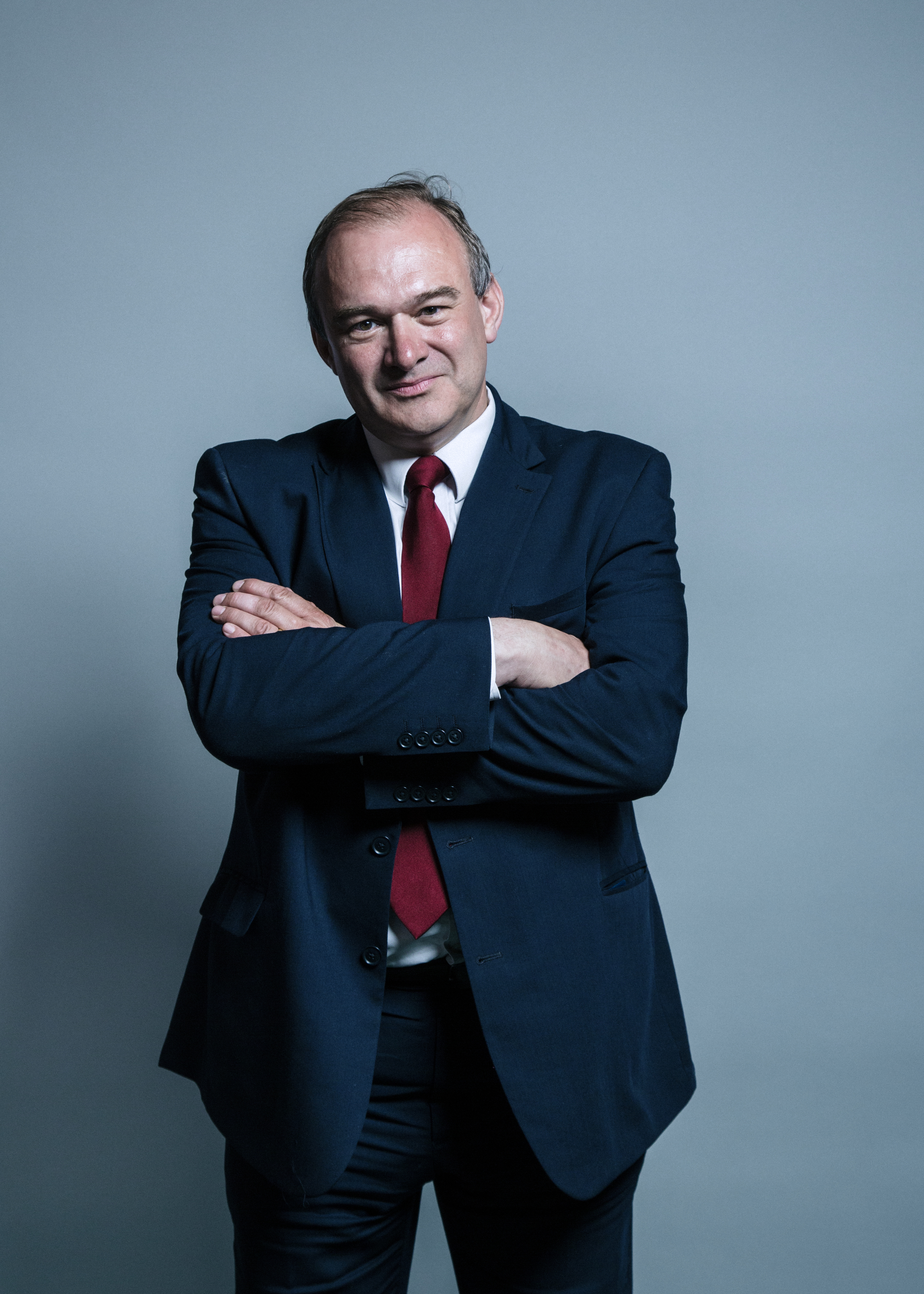 Official portrait of Sir Edward Davey